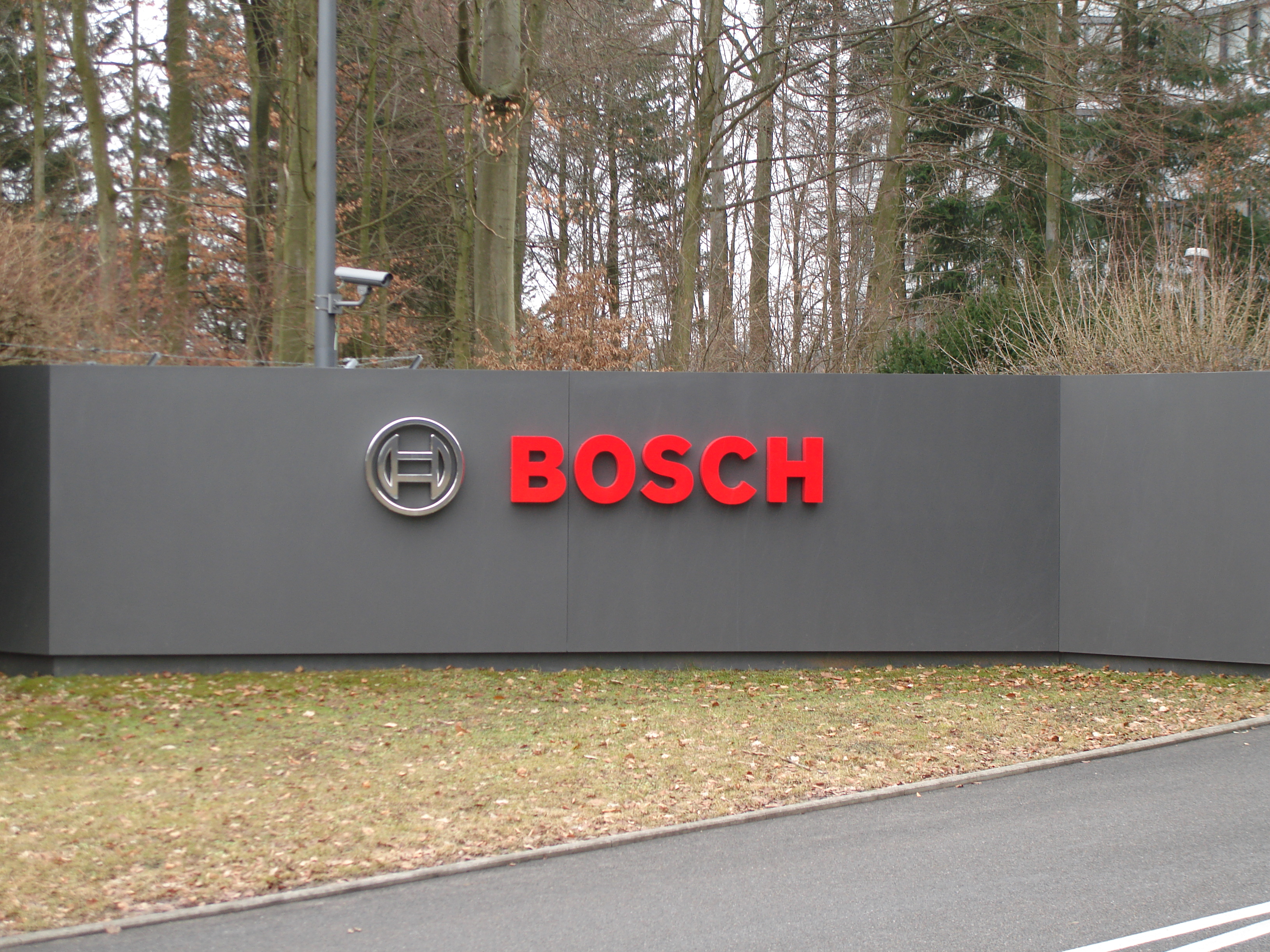 Logo of Robert Bosch GmbH in Stuttgart